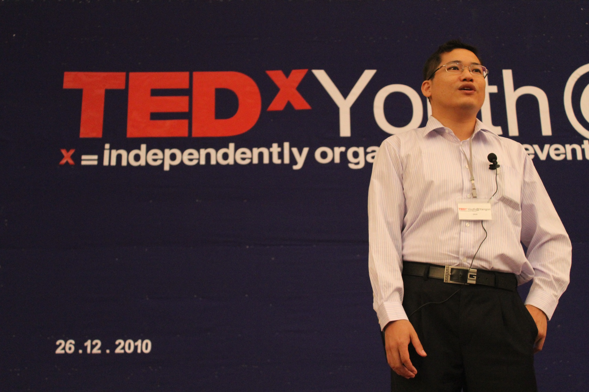 Speaker Ngwe Tun gives speech to the audience during TEDx Youth Conference in Yangon, Myanmar on 26 December 2010.